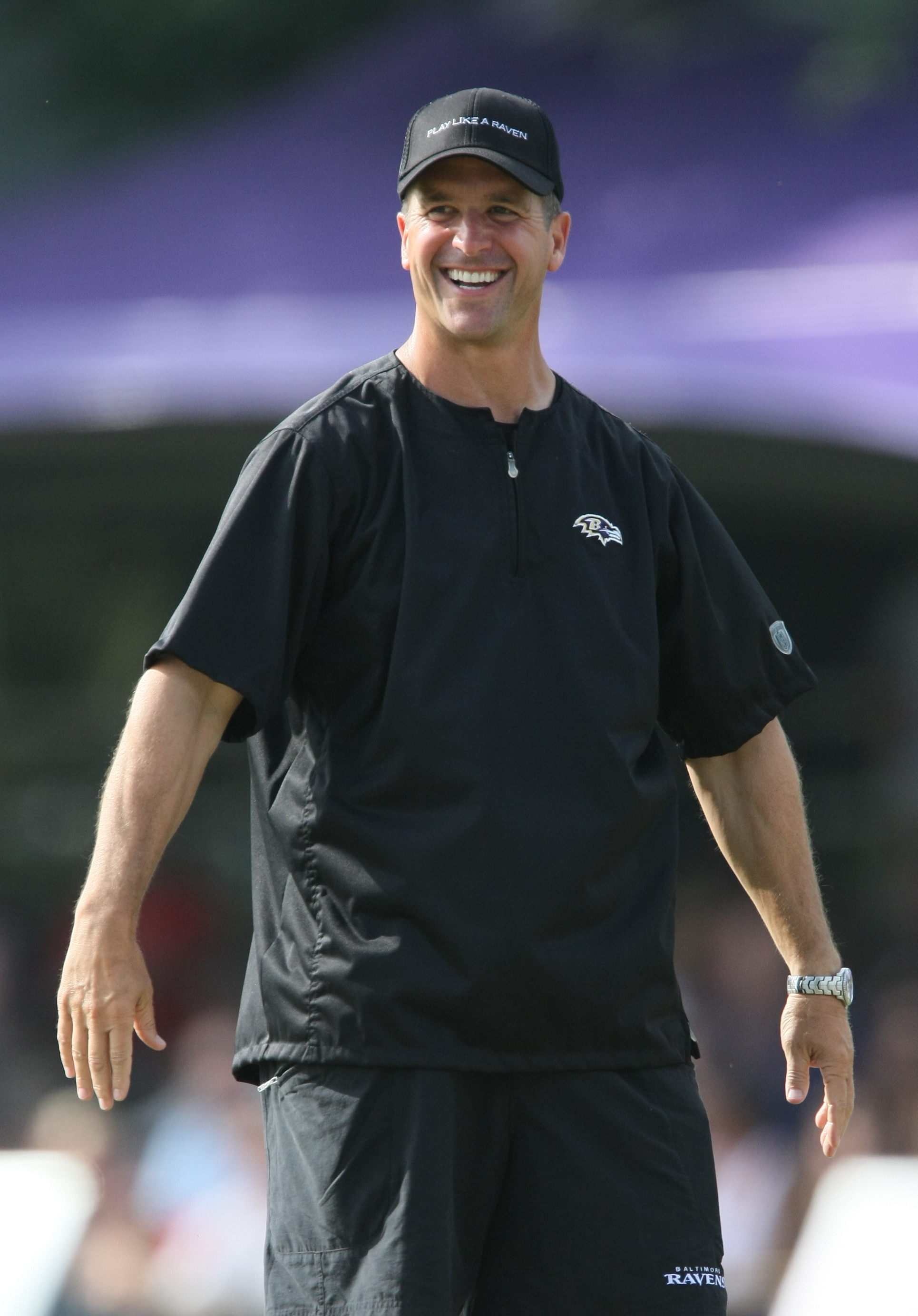 Baltimore Ravens Training Camp August 20, 2009